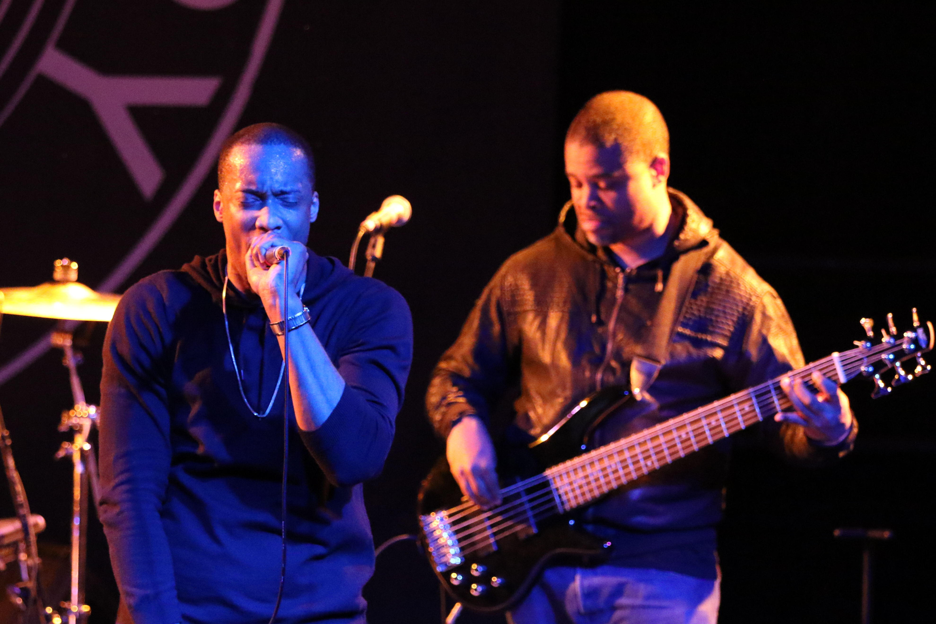 BlackMilk-KnittingFactory-Treefort2015-credit-Christina-Birkinbine 01